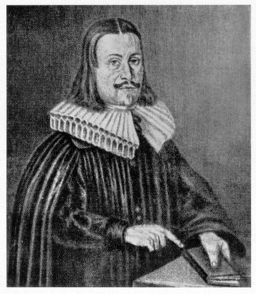 Andreas Libavius (1555 – July 25, 1616) was a German doctor and chemist.